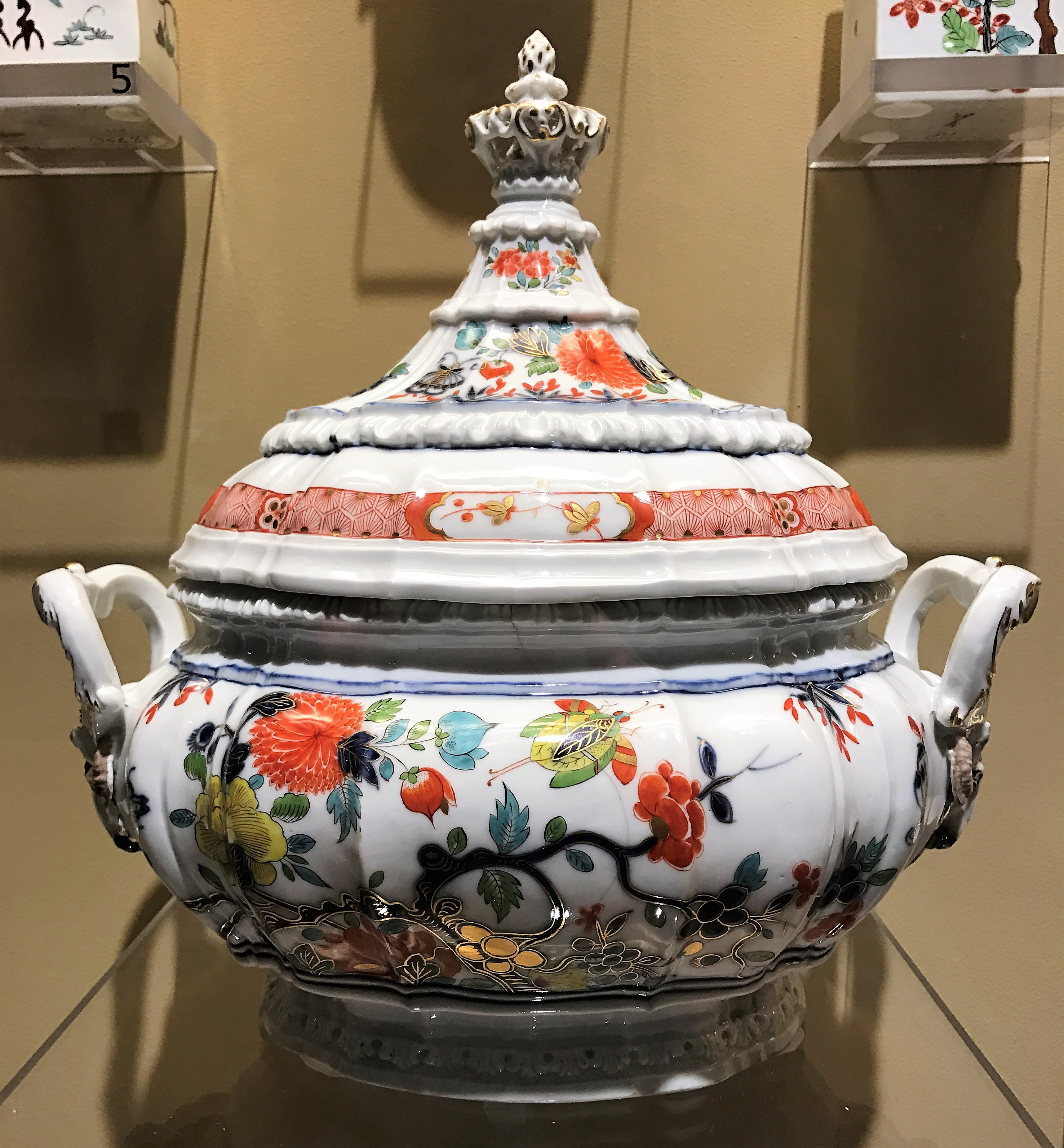 A piece of Meissen Porcelain located at the Cummer Museum.